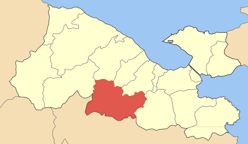 Locator map of Nemeas municipality (Δήμος Νεμέας) at Korinthias perfecture, Greece.